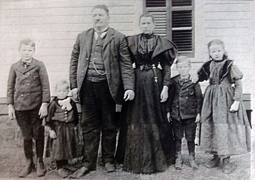 Dr. William Franklin Goldin, his wife Sarah Suzanne Hutcheson, and two of his children.